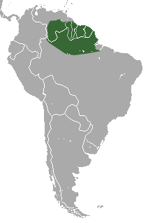 Northern Red-sided Opossum (Monodelphis brevicaudata) range